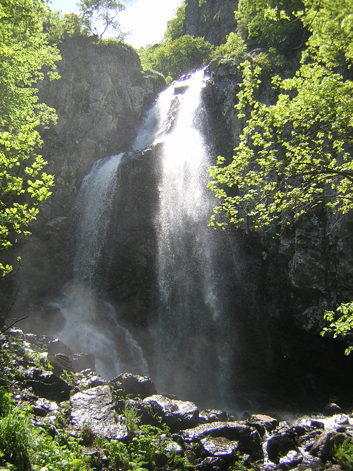 Boyana Waterfall, in the Vitosha Mountains near Sofia, Bulgaria.